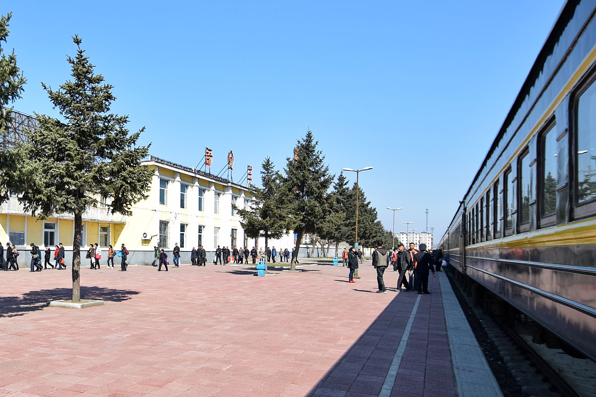 Shulan Railway Station